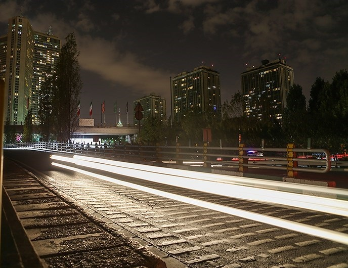 Yusef Abad Tehran Apartment Pictures. Tehran, IRAN. From Tasnim.